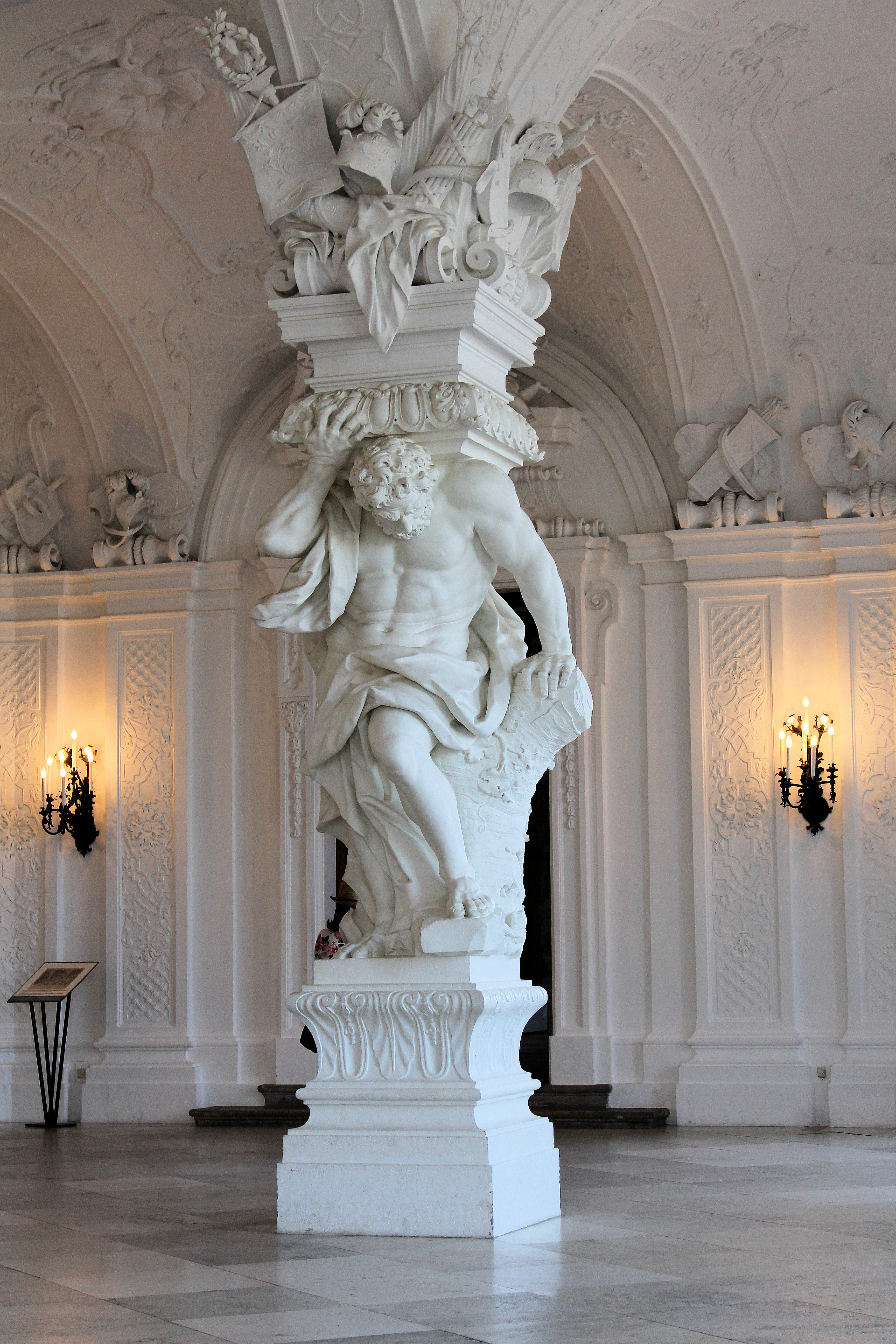 Vienna-Landstraße, Upper Belvedere, supporting figure